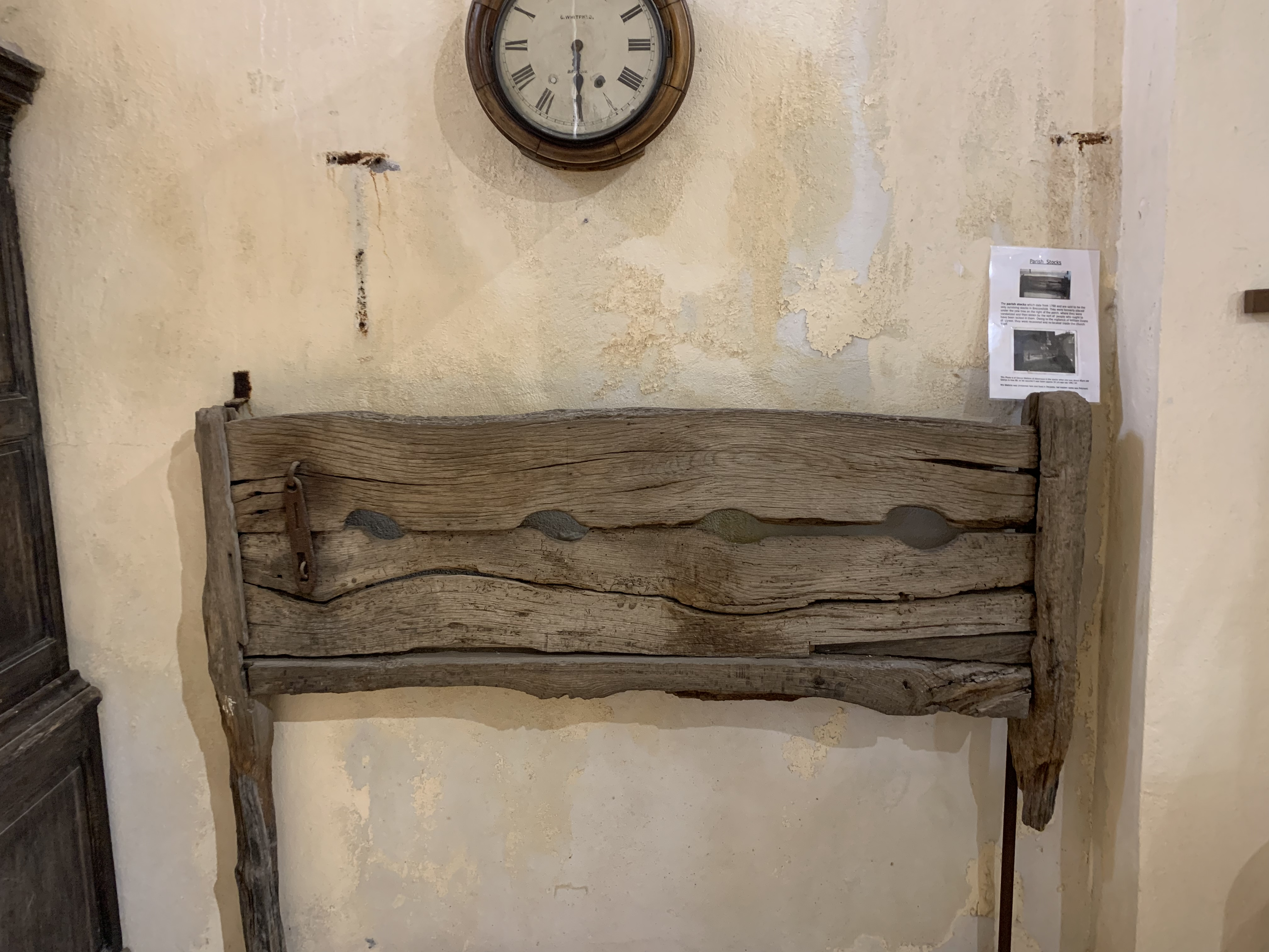 Old stocks in Llywel Church. They date from 1798.